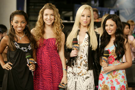 The cast of the 2007 film Bratz, at MuchMusic for a MuchOnDemand episode.